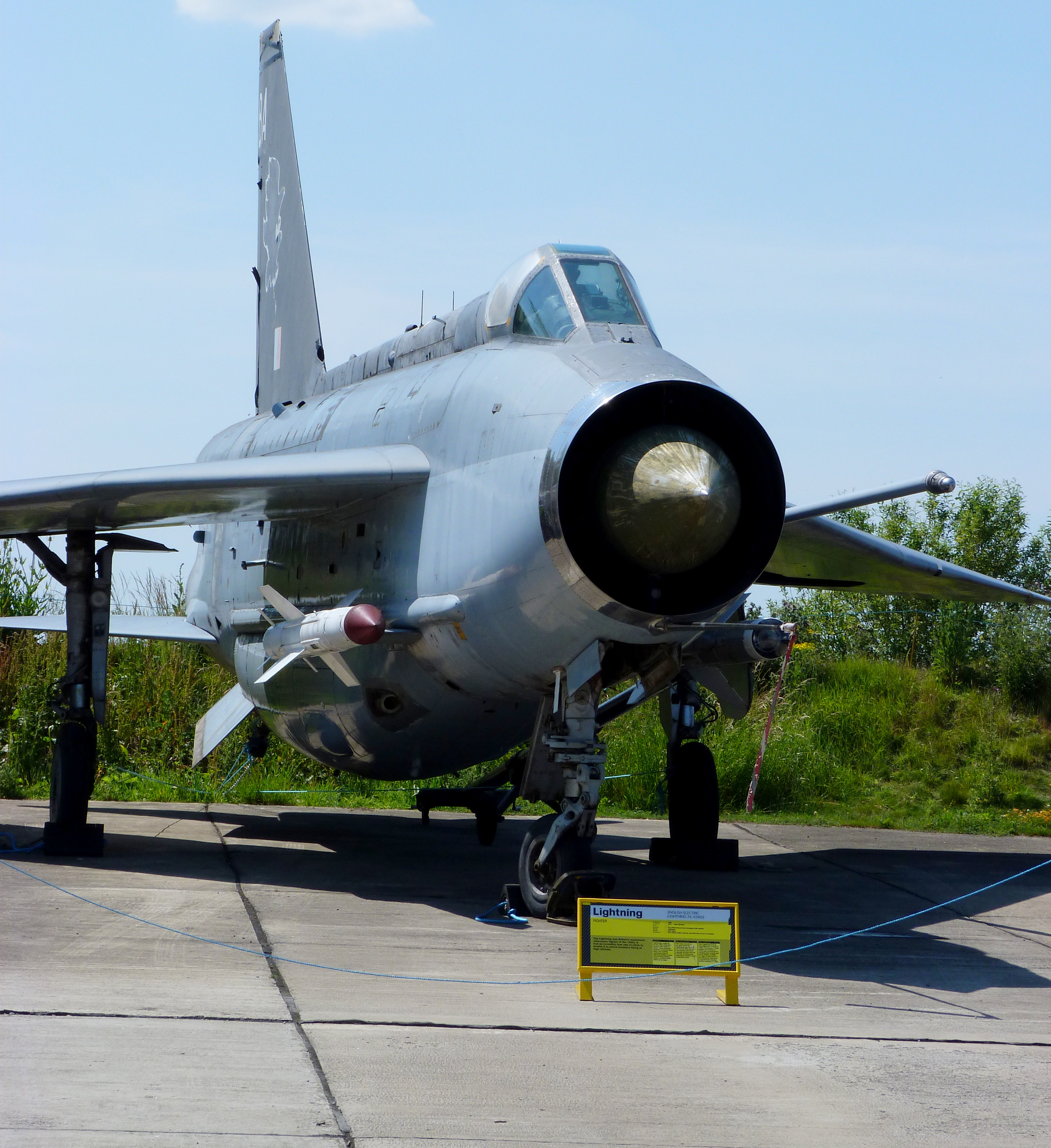 XS903 EE Lightning F.6 RAF